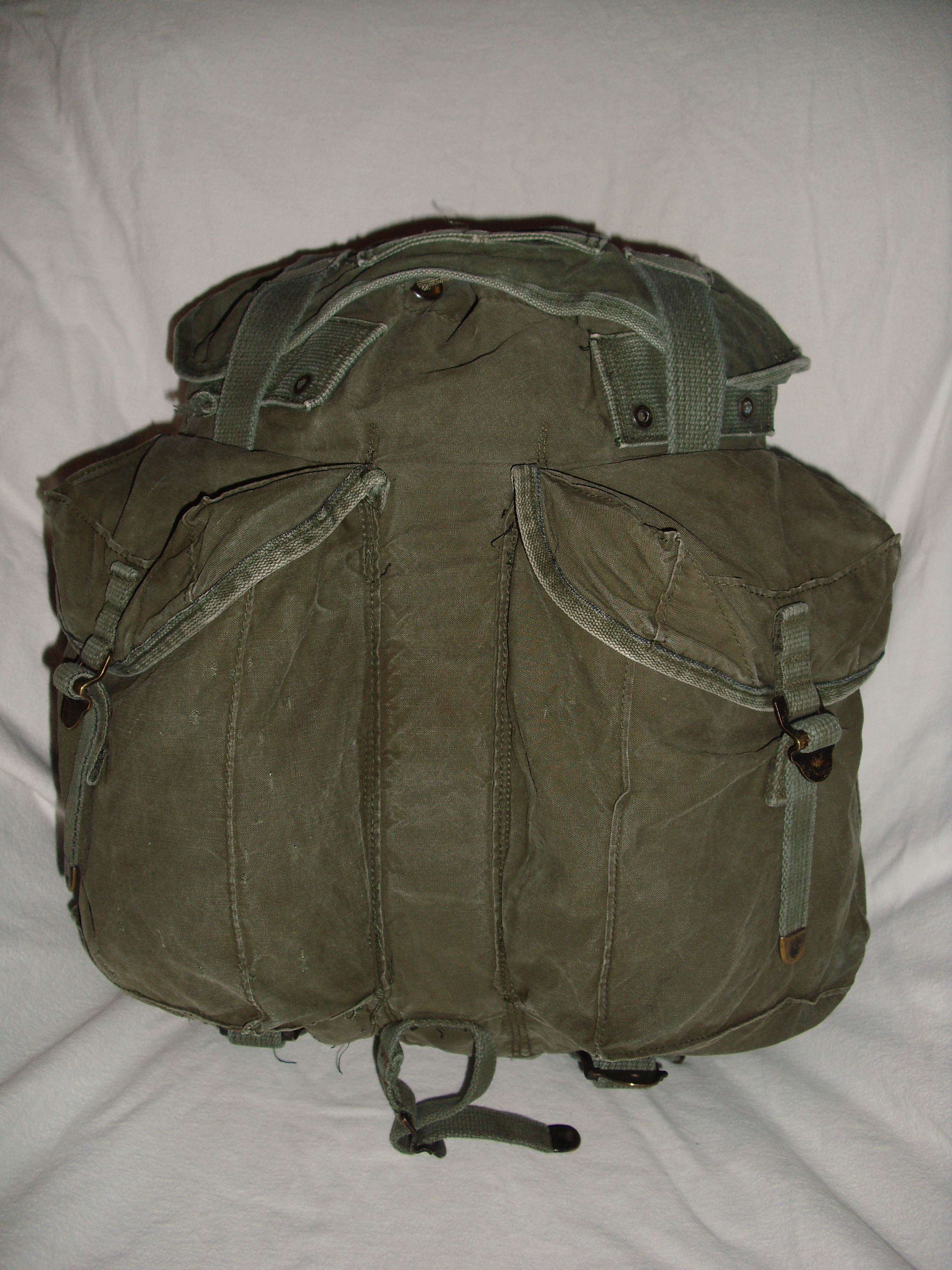 ARVN Rucksack Front